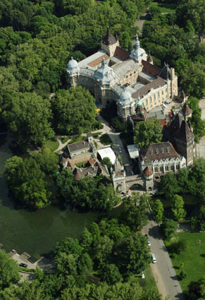 Castle of Vajdahunyad, Budapest, Hungary, aerial photography